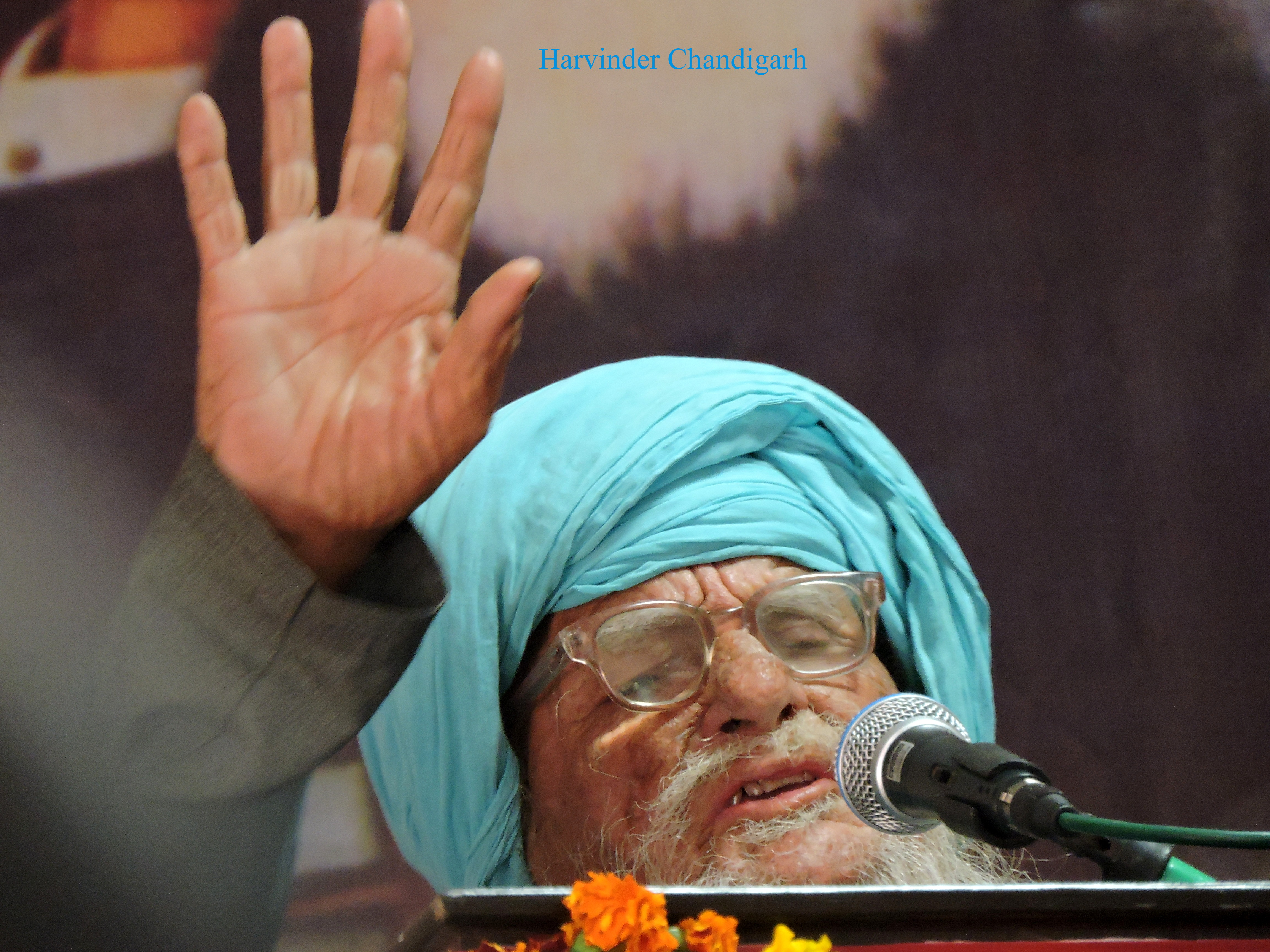 Hari Singh Dilbar,Sirsa , Haryana based Punjabi language comedy poet